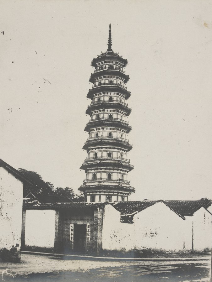 View of Pagoda surrounded by houses, Canton(Guangzhou), China.